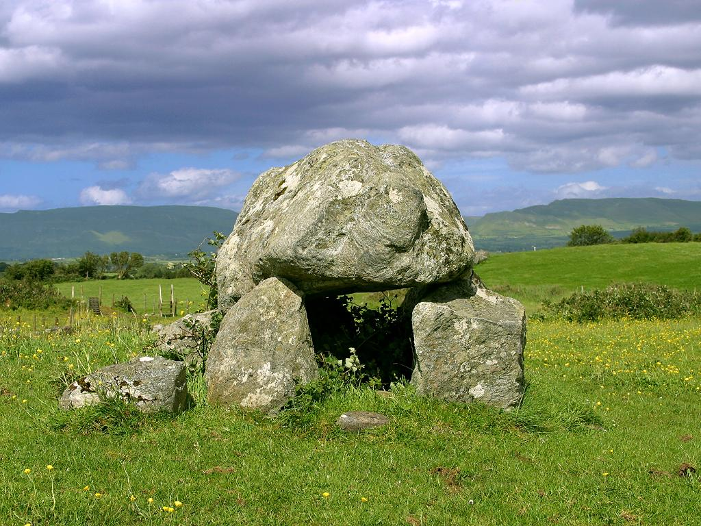 This file is from PD . Please, see its description page there for more details. Description : Carrowmore, the site of a prehistoric ritual landscape in County Sligo in the Republic of Ireland. Source : Self made work Date : Author : Jon Sullivan. Permission: file released into the public domain by its author (see below) (WT-shared) Gobbler 17:11, 31 December 2006 (EST).